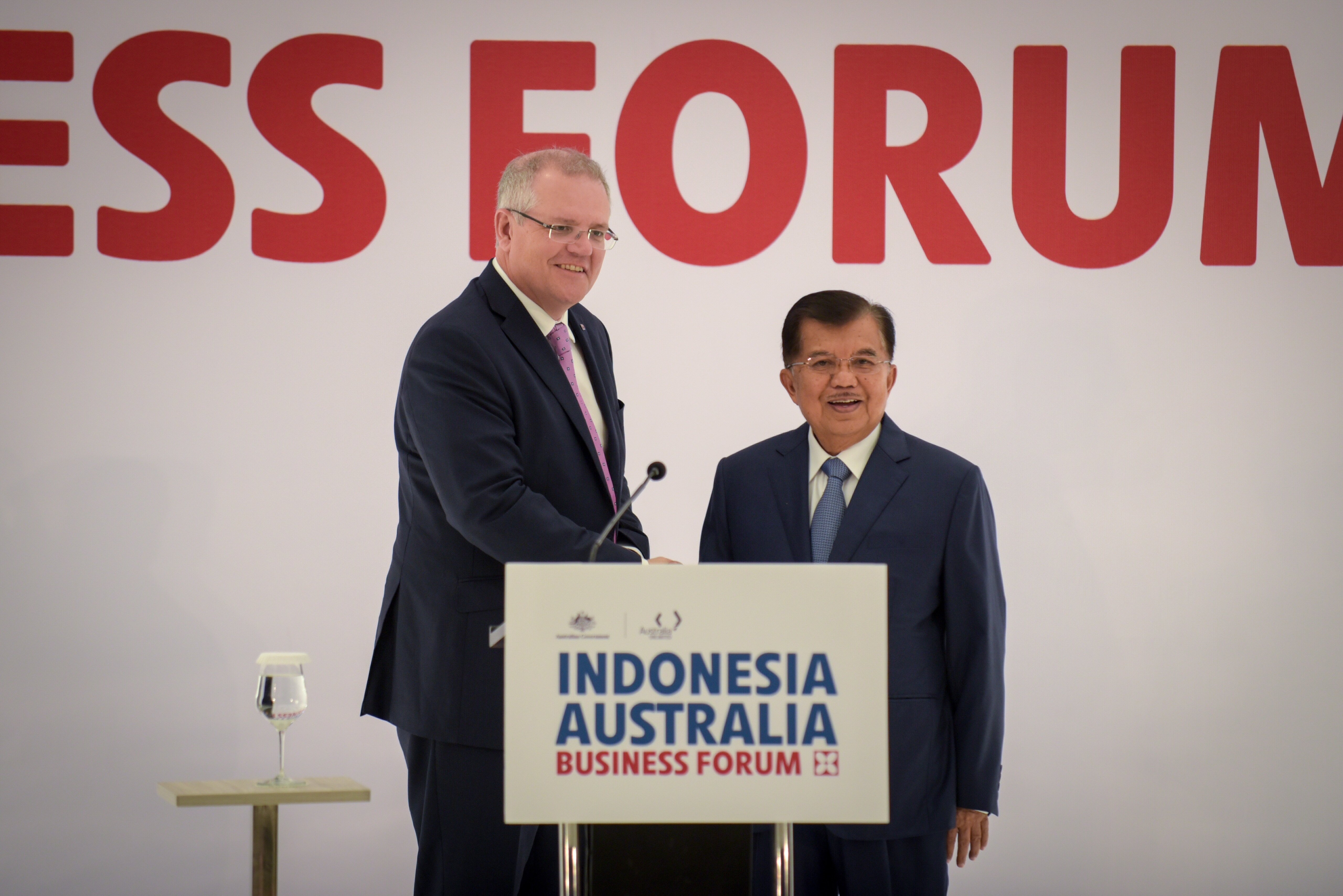 Photo credit: DFAT / Timothy Tobing